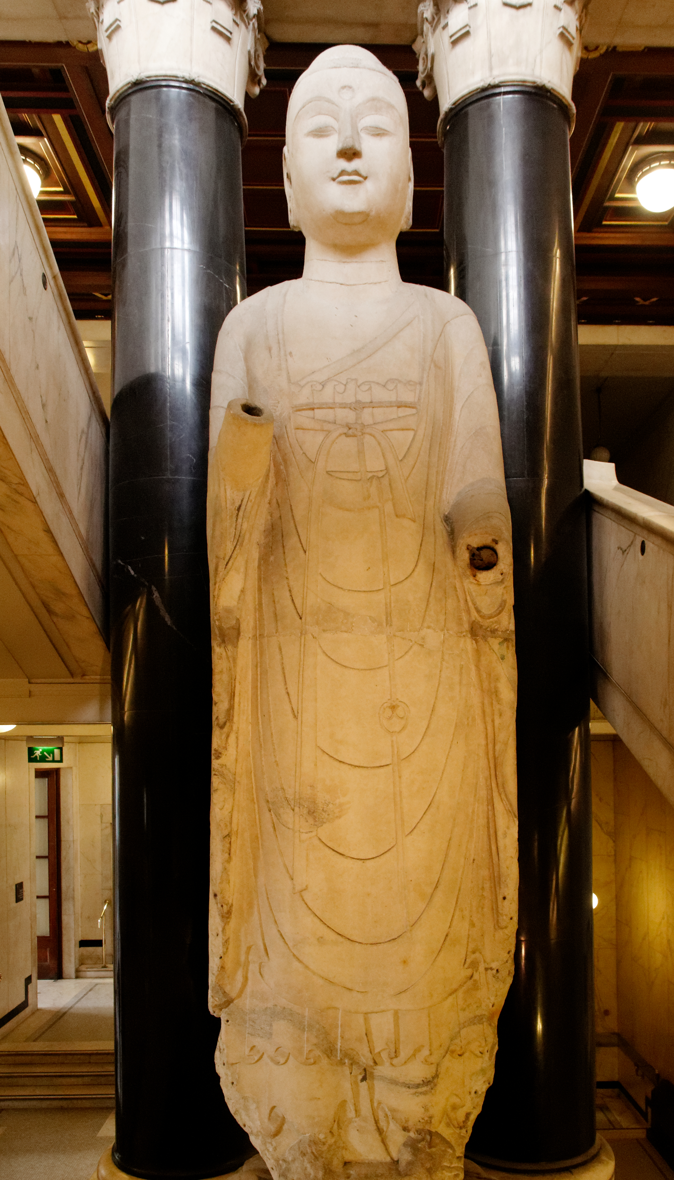 Colossal statue of Amitābha Buddha standing on a lotus base with hands (now lost) in abhaya and varada mudra gestures. Dedicated at the Chonguang Temple in the lost village of Hancui, Hebei Province.